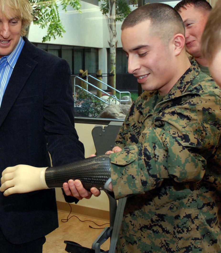 American actor Owen Wilson gripping Lance Cpl. Brandon Mendez's new myoelectric arm.